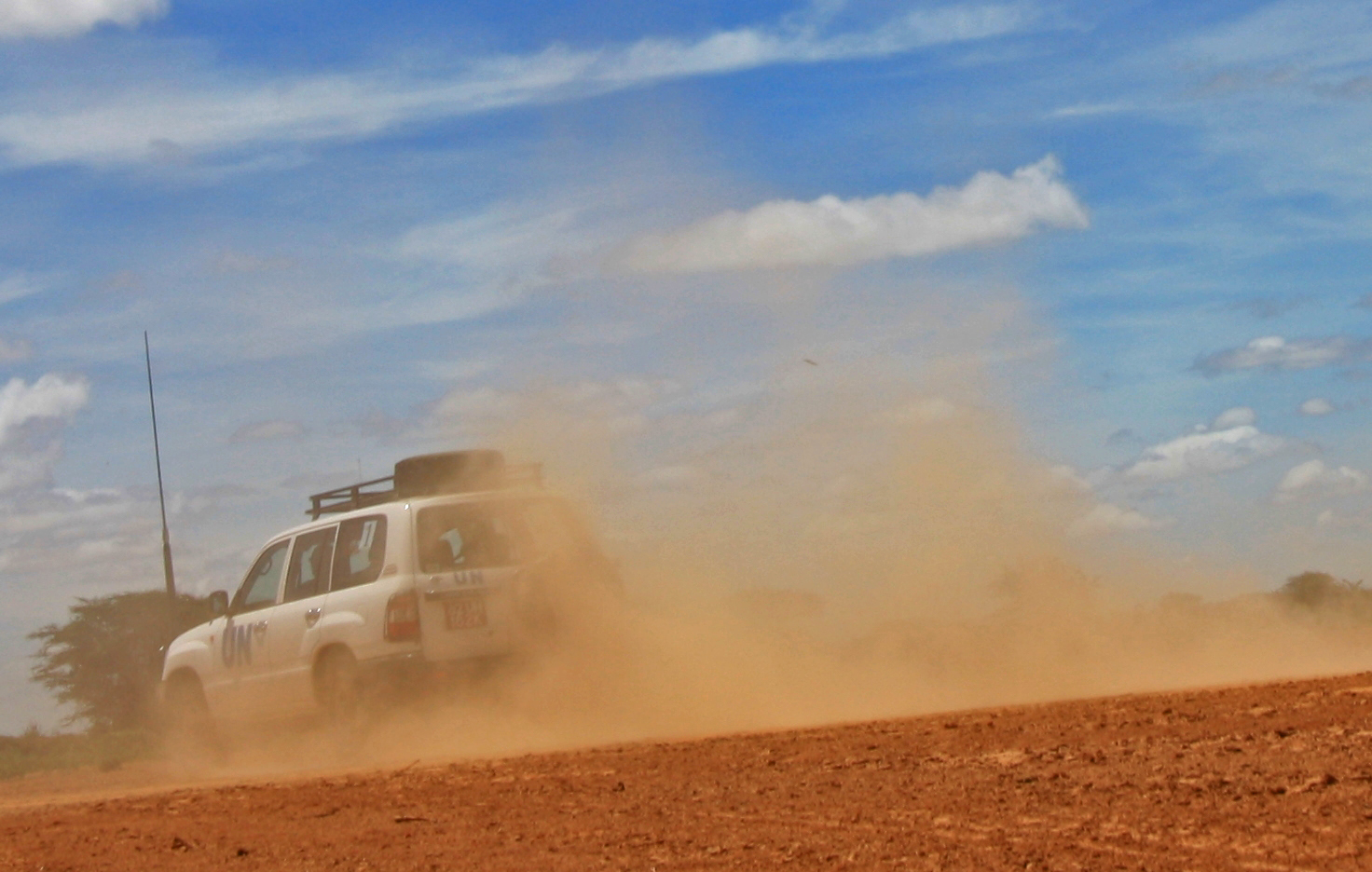 UN jeep traveling between Dadaab.